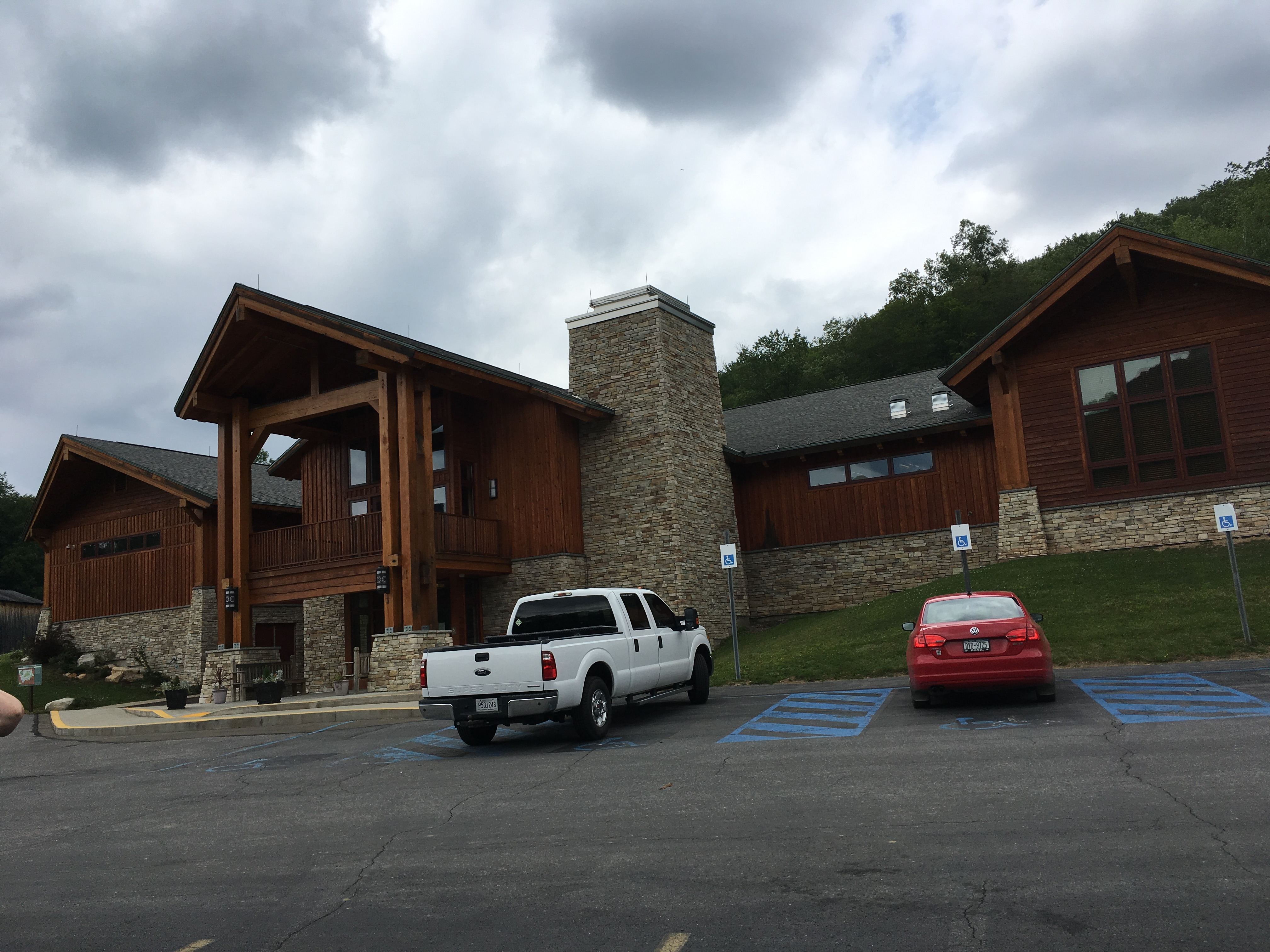 The visitor center of the Pennsylvania Lumber Museum in Ulysses Township, Pennsylvania